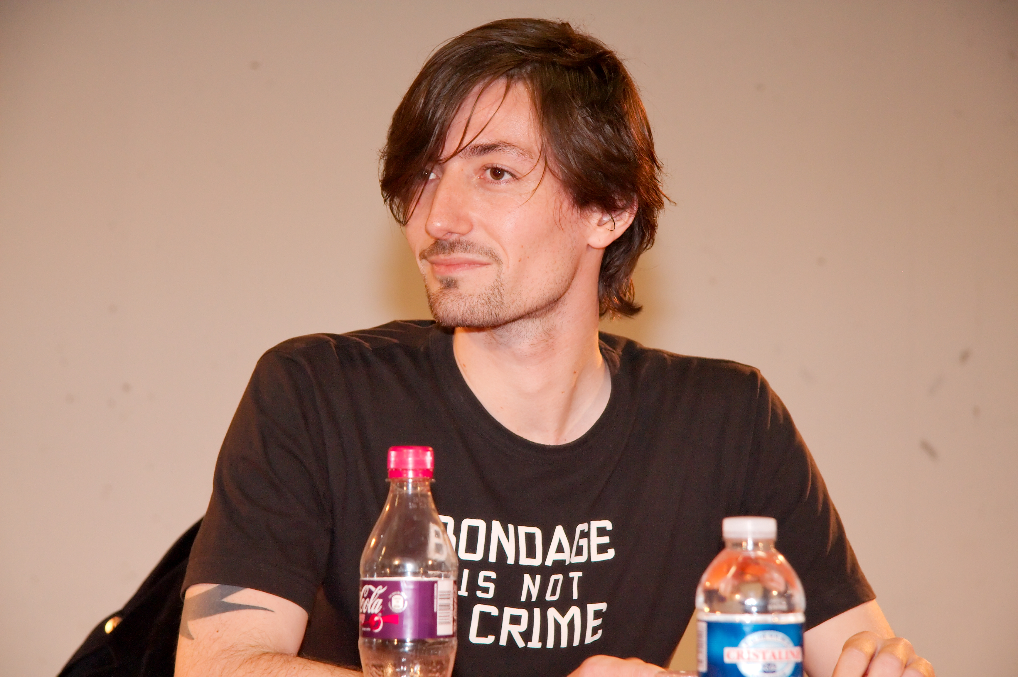 Autograph session with the Flander's Company at Chibi Japan Expo 2008 (Paris, France).